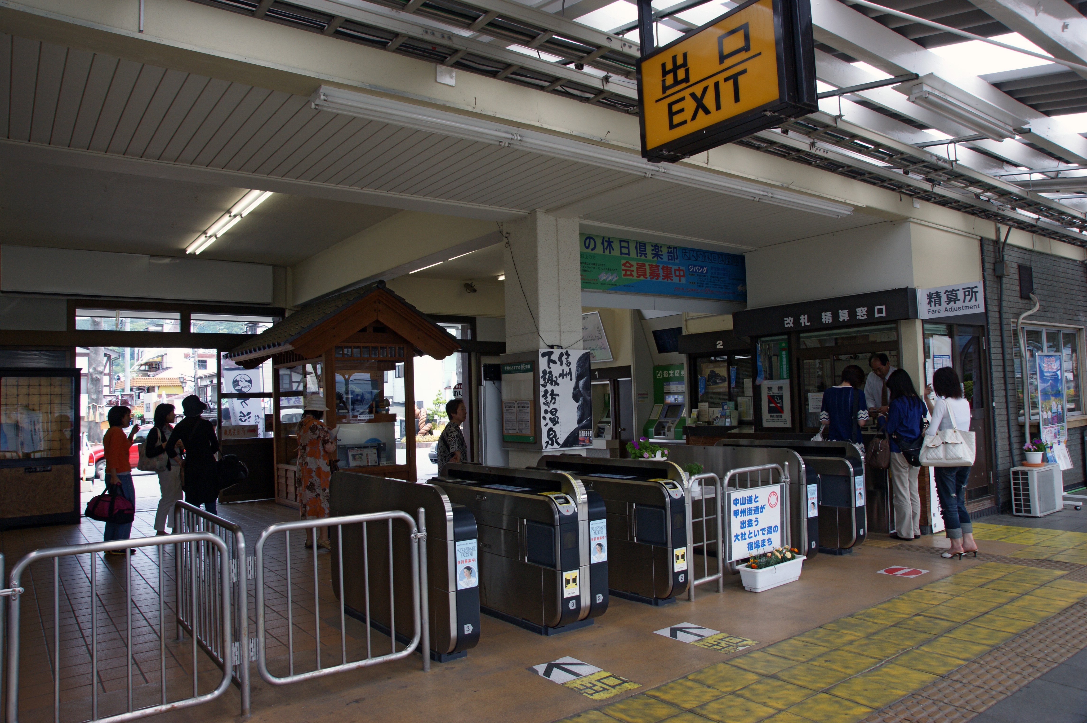 Shimosuwa Station, Shimosuwa, Nagano prefecture, Japan